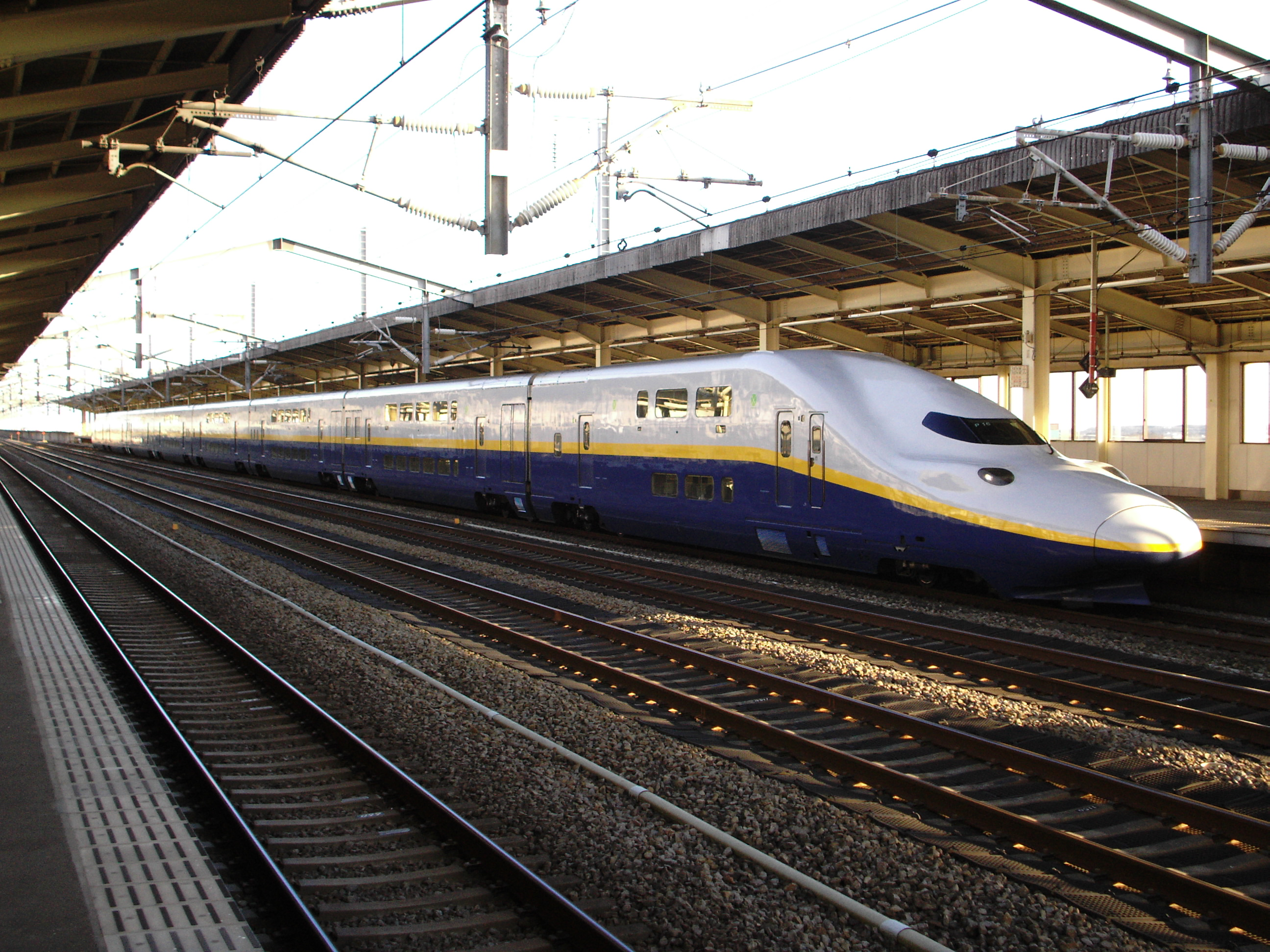 A JR East E4 series shinkansen train on a Max Tanigawa service at Kumagaya Station